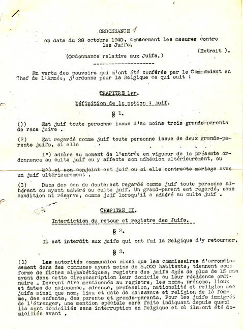 Order dated 28 October 1940 concerning measures against Jews